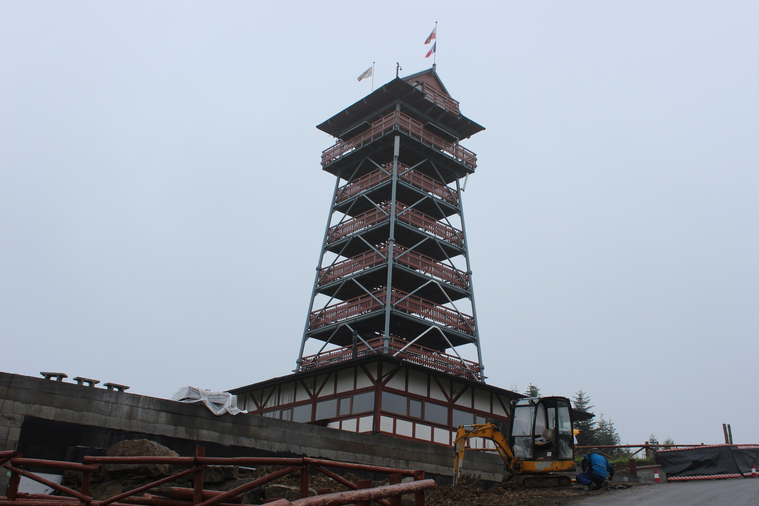 Beskidzki Raj Tower in Stryszawa